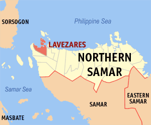 Map of Northern Samar showing the location of Lavezares